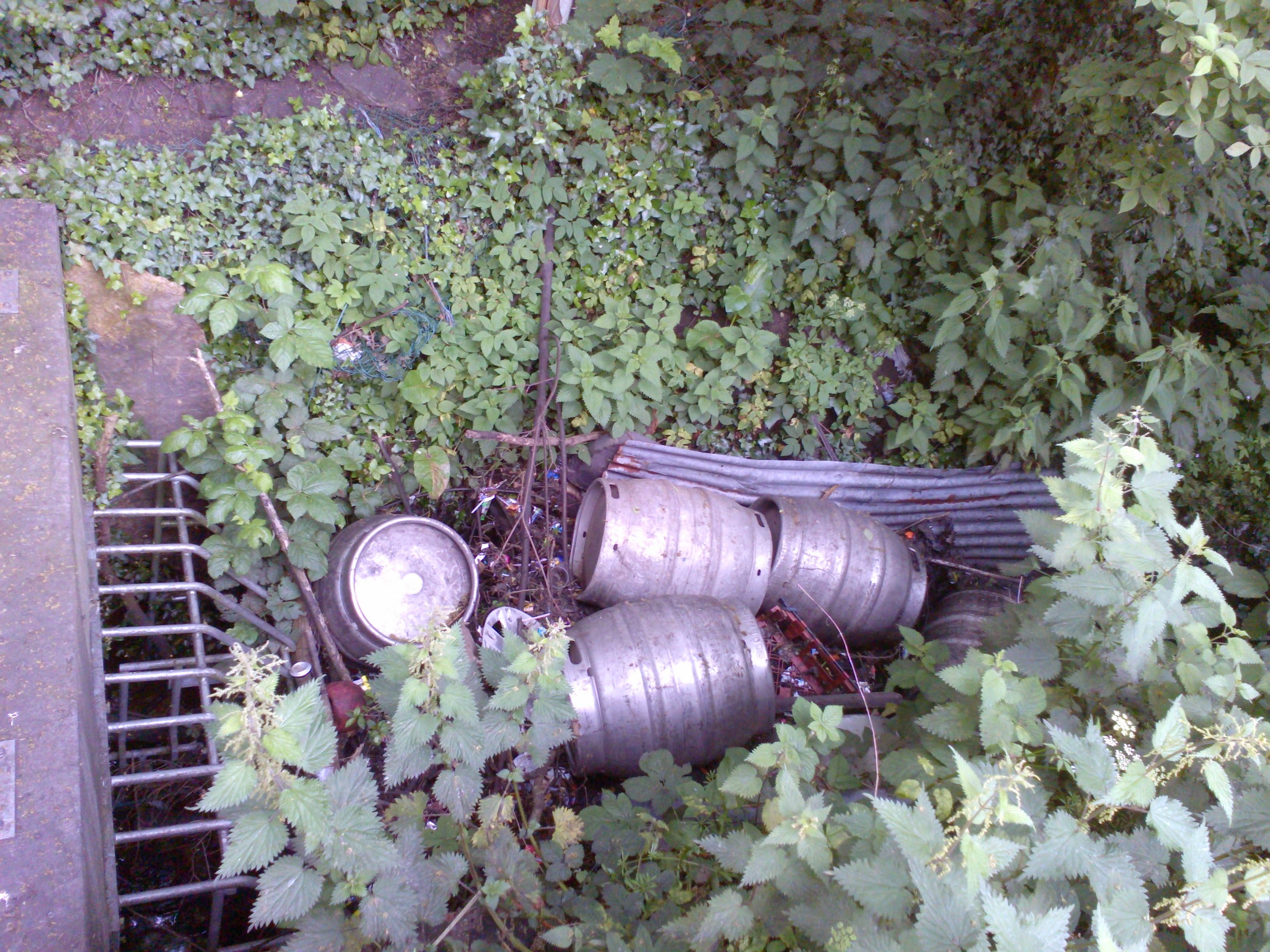 The last visible bits of the Tue Brook in Liverpool